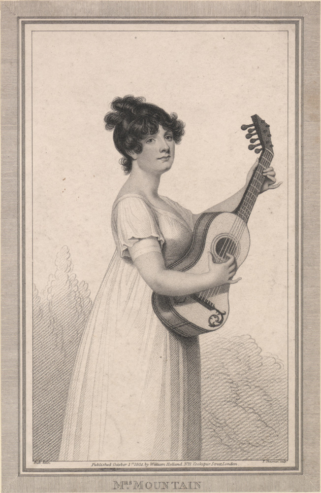 Portrait of the entertainer Rosemond Mountain (c.1768-1841). Shelfmark: Actors, Actresses and Entertainers 3 (47)